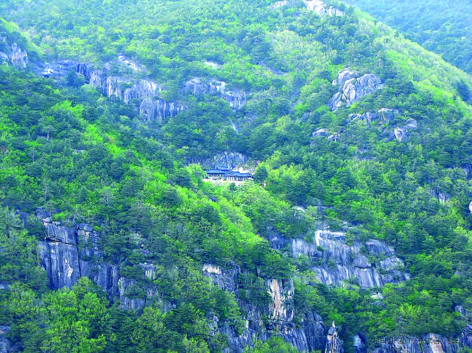 Beopju temple